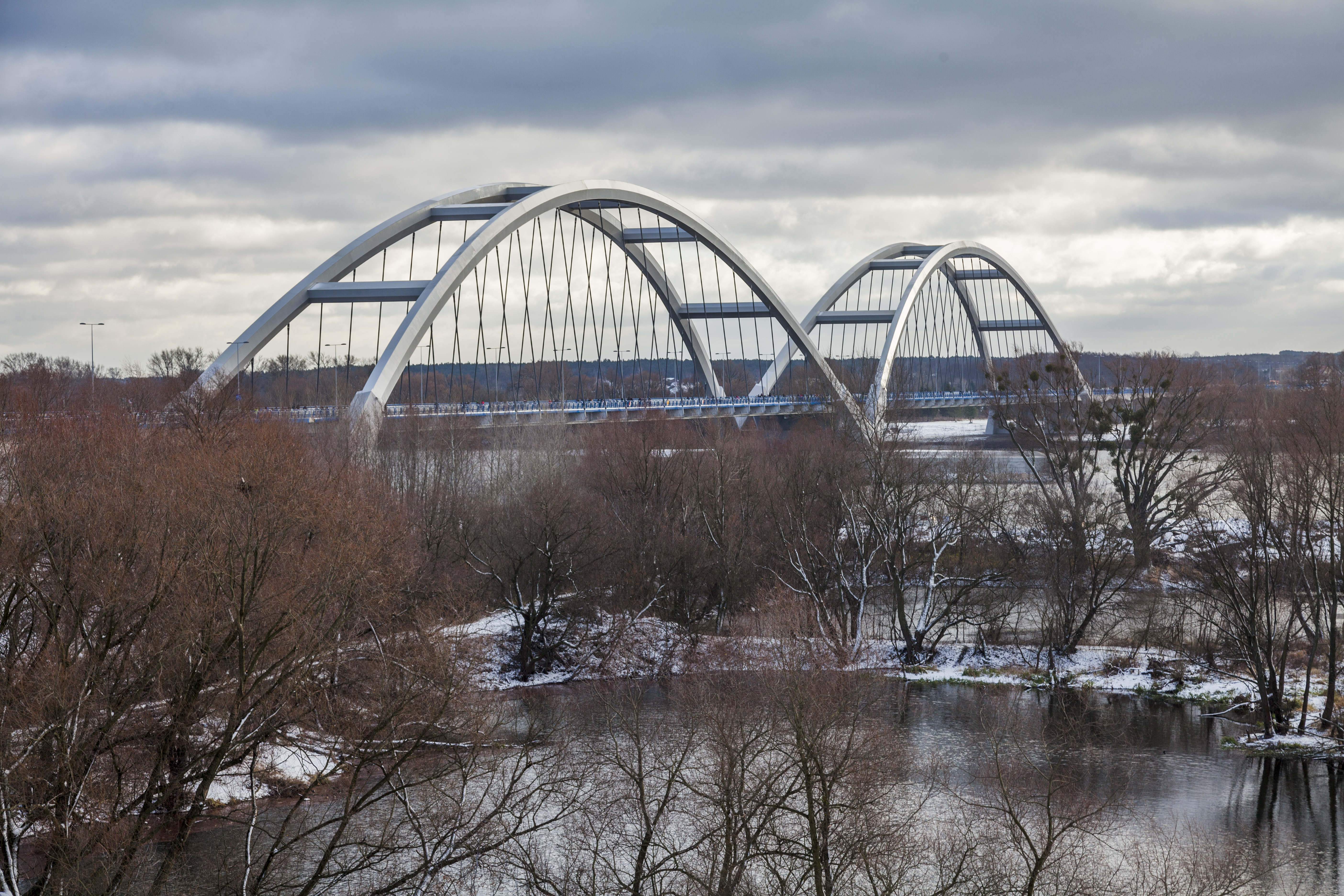 New road bridge in Toruń.